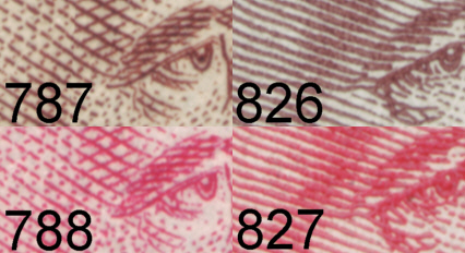 detail of the definitive stamp series of Adolf Hitler (1889-1945) Graphics by R. Klein Ausgabepreis: je 2 mal 10 und 12 Pfennig First Day of Issue / Erstausgabetag: August 1941 / Dezember 1942 Michel-Katalog-Nr: 787,788,826,827 (Deutsches Reich)